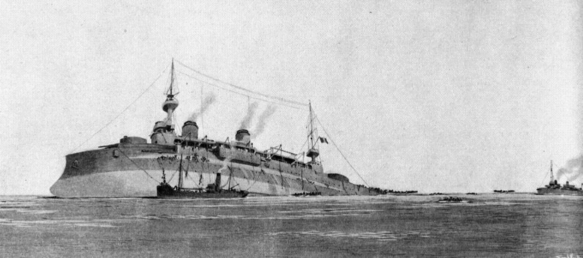 Sinking of the French battleship Gaulois off Crete, late 1916.